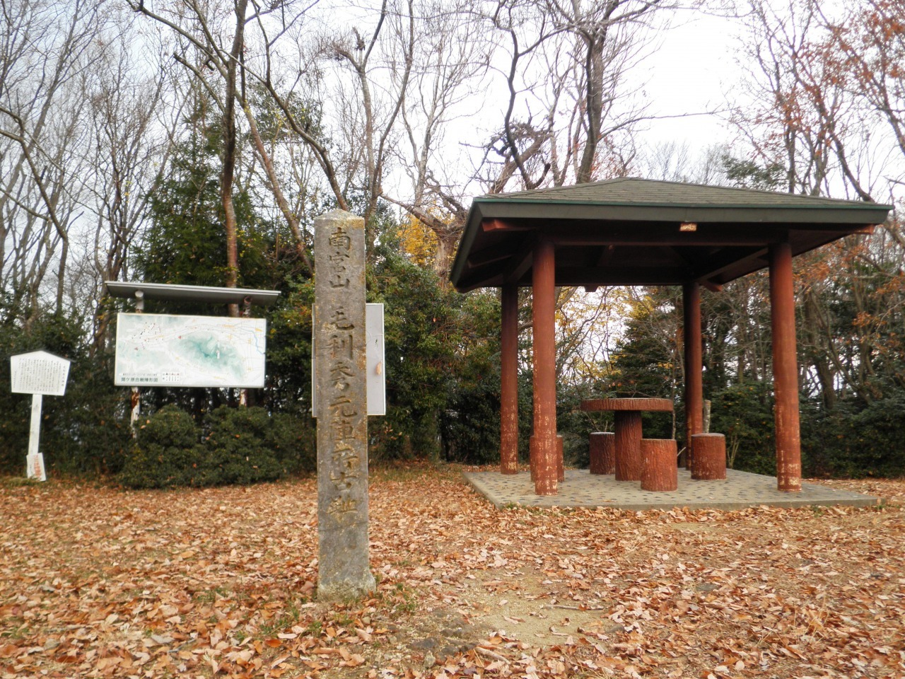 Site of Mōri Hidemoto's position in the Battle of Sekigahara located in Tarui, Gifu.